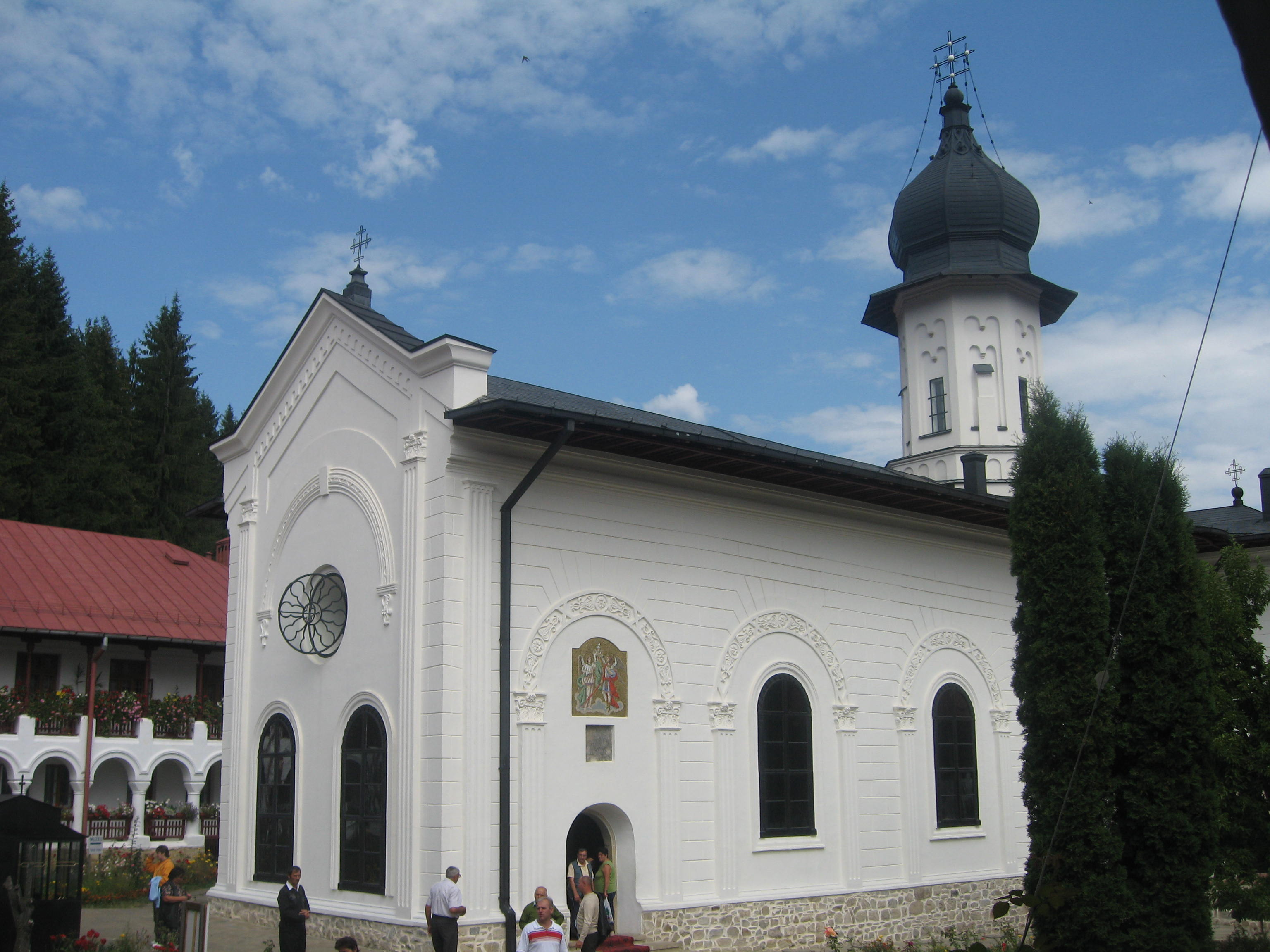 Mănăstirea Agapia 01